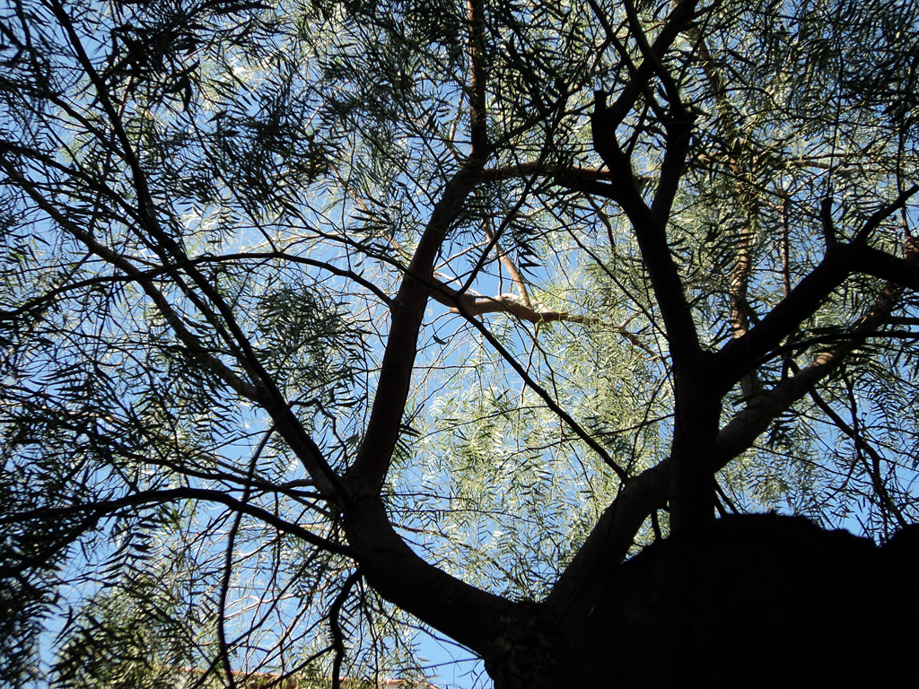 Tree branches